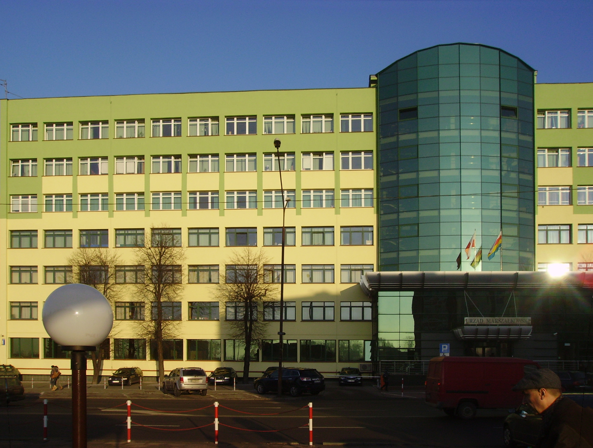 Podlaskie Voivodeship Marshal's Office.